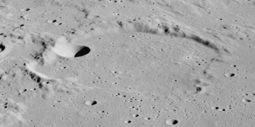 Oblique view of Lade crater, facing north, on the moon.